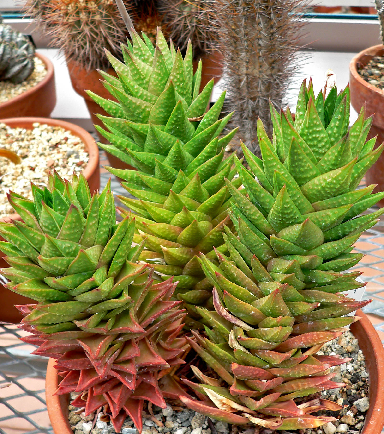 Photo of x Astrolista bicarinata at the University of California Botanical Garden